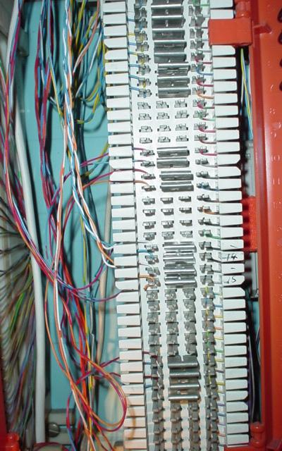 66 block (cc) 2005 Konrad Roeder